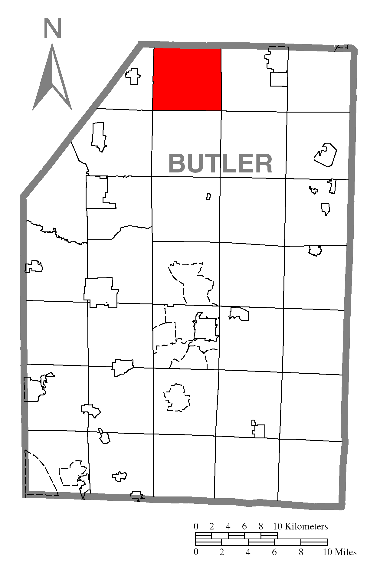 A map of Butler County showing Marion Township, Pennsylvania (alternate) highlighted on the map.